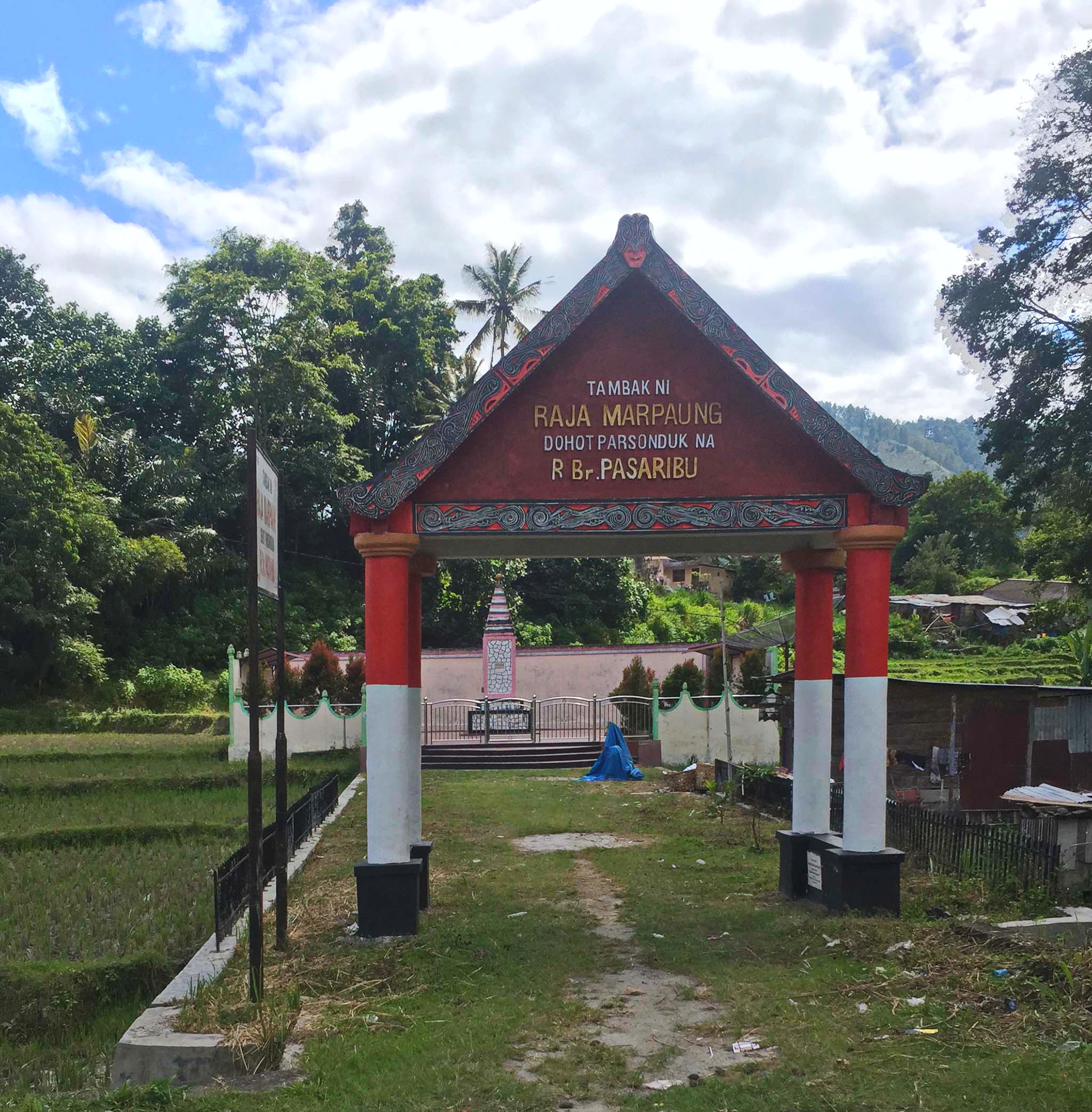 monument of Raja Marpaung in Balige